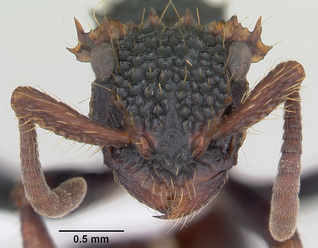 Head view of ant Ankylomyrma coronacantha specimen casent0005904.